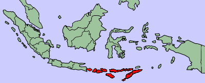 Map showing the Lesser Sunda Islands (Nusa Tenggara)